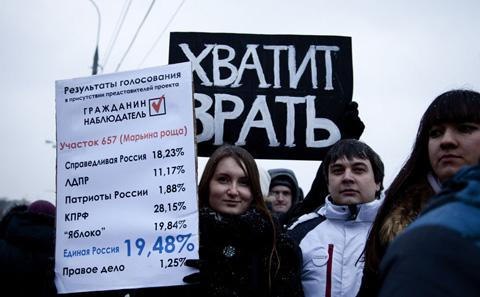 Protesters gathered in central Moscow Saturday to express their discontent with recent parliamentary elections, which observers say were tainted by ballot-stuffing and fraud on behalf of Mr. President Vladimir Putin’s party, United Russia.